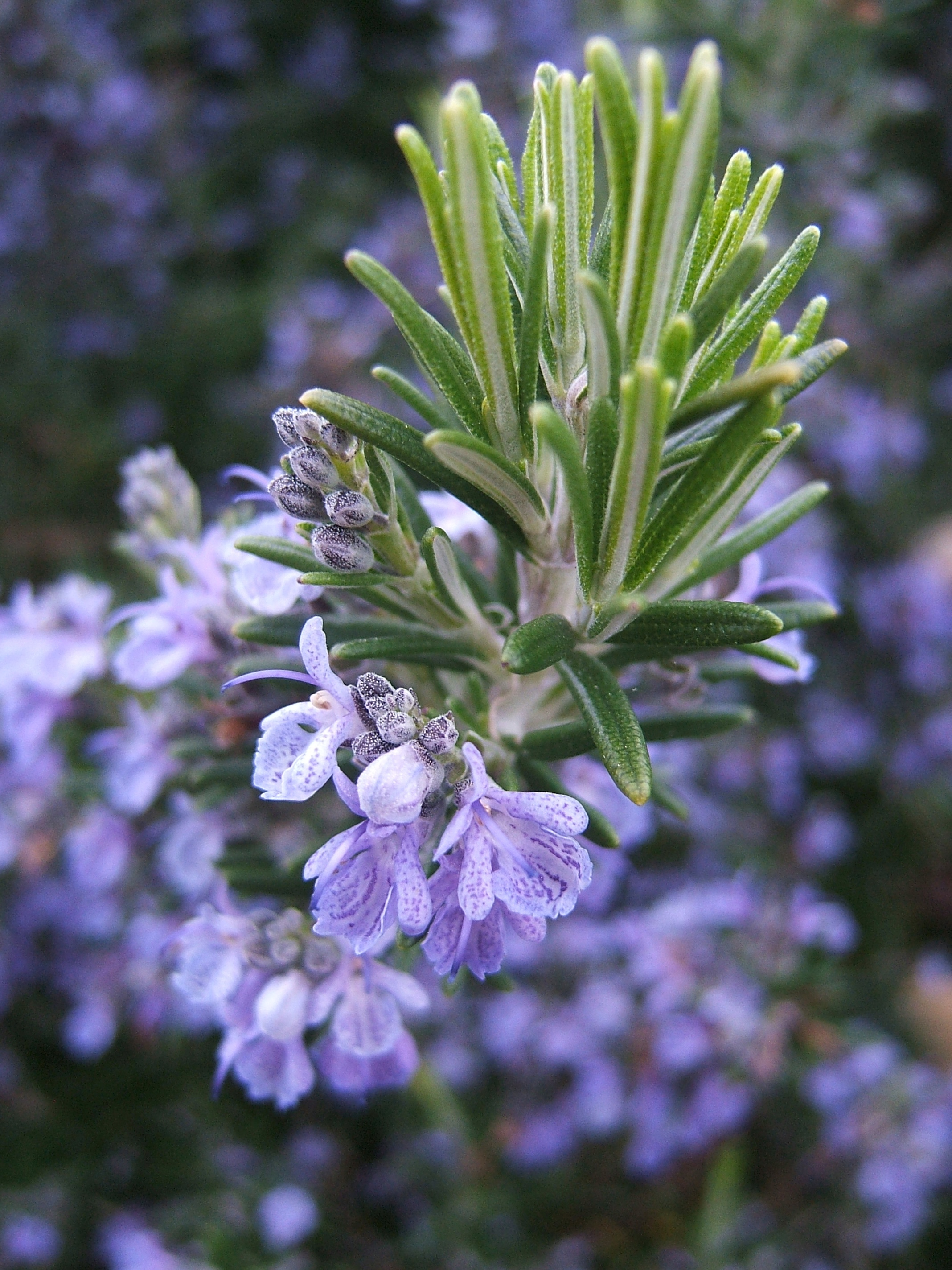 Rosmarinus officinalis